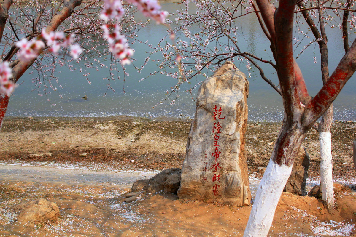 A Carved stone Claims that it used to be the land where Qianlong Emperor disembarked.